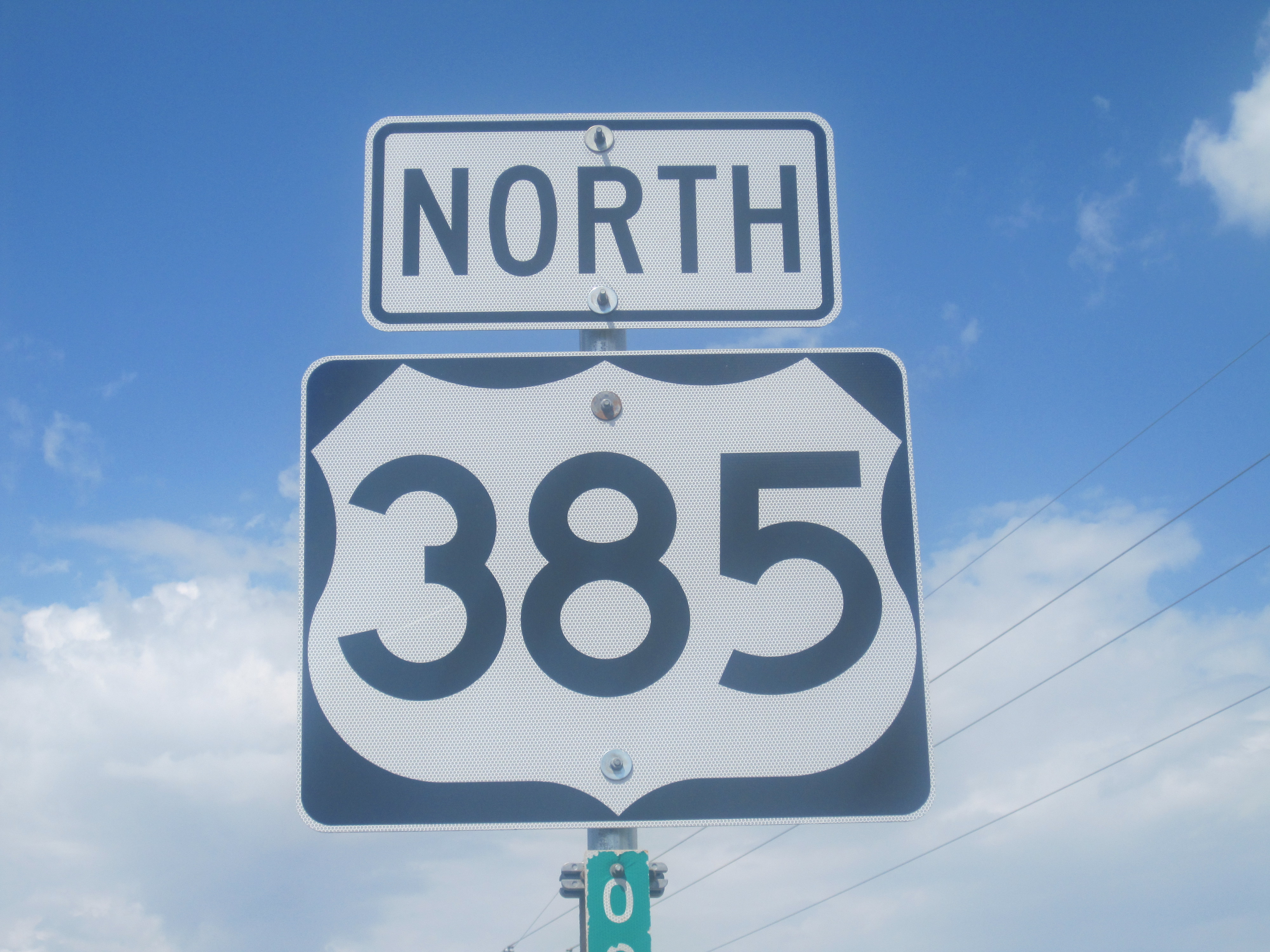 I took photo with Canon camera north of Vega, TX.